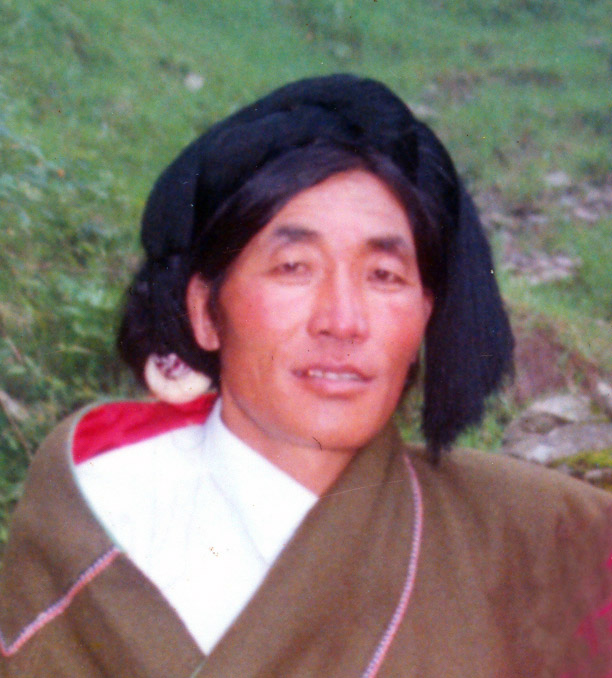 Photo of Runggye Adak